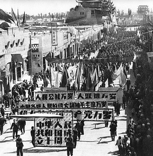 China 10th Anniversary Parade in Yinchuan